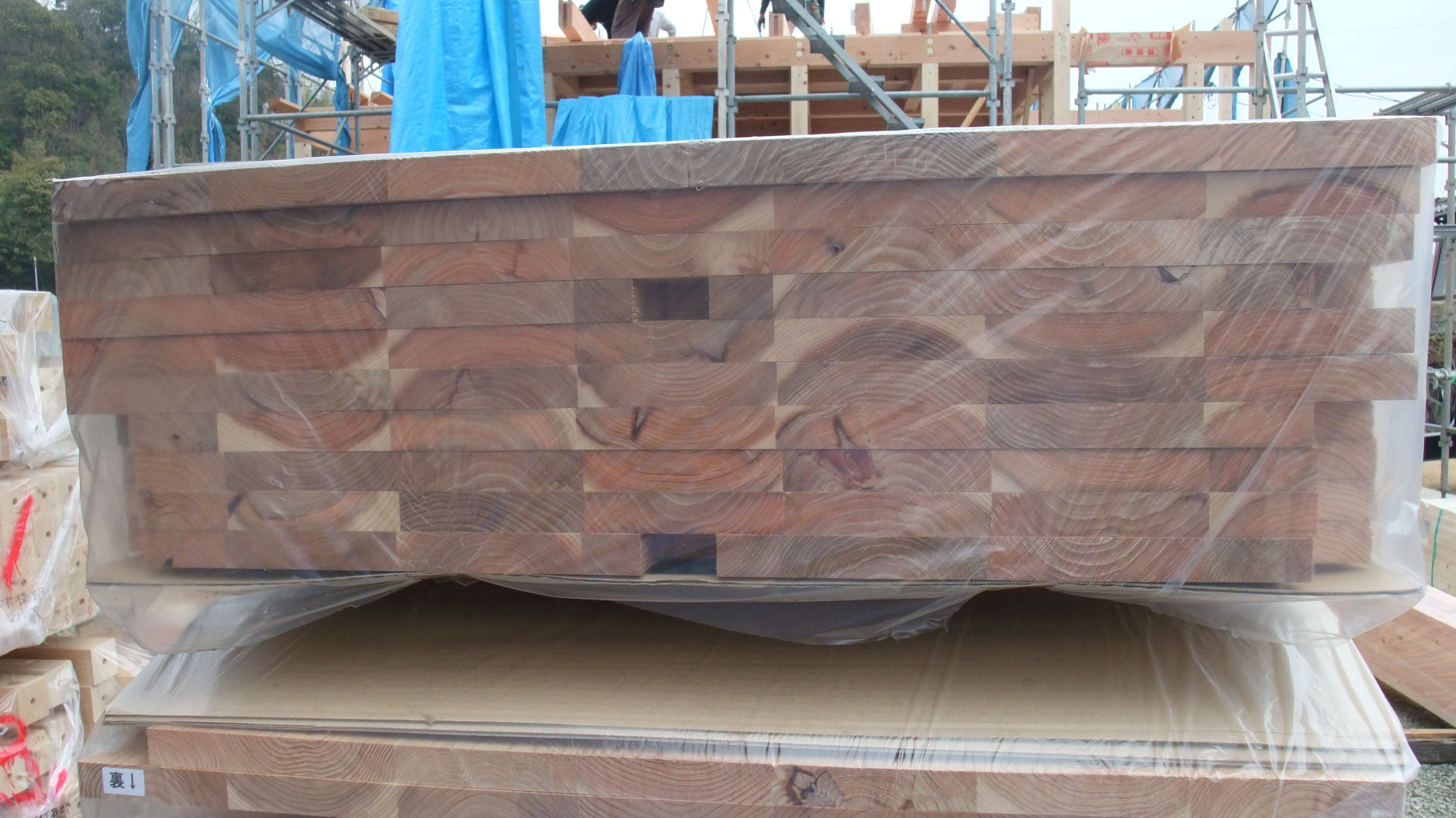 Solid Edged-glued Panel